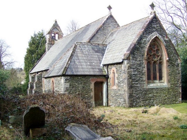 The Church of St John the Baptist, Blawith, near to Blawith, Cumbria, Great Britain. The church dates from 1862-63 and was built to the designs of E G Paley. It is built of Whinstone and is in the care of the Churches Conservation Trust.